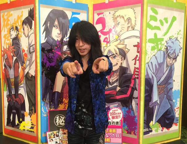 Boruto